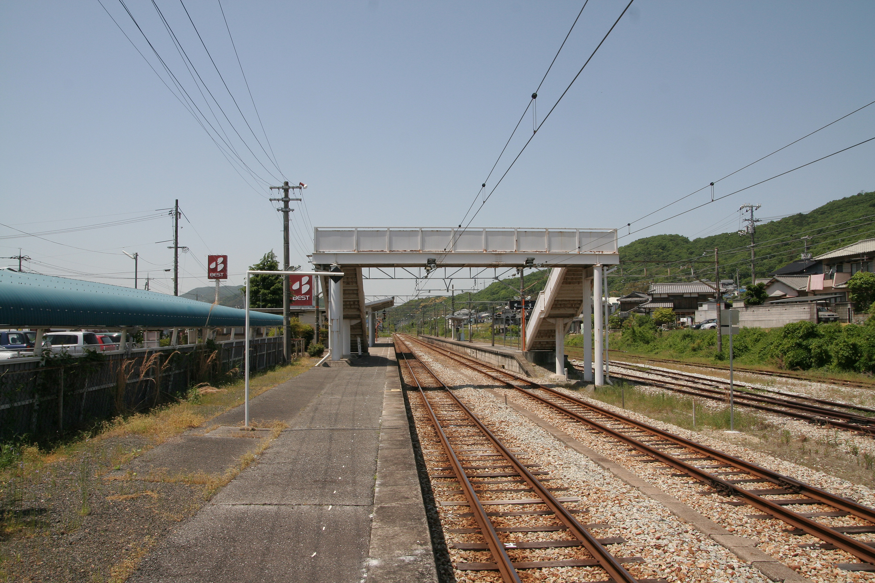 West Japan Railway Company Akō Line Bizen-Katakami Station enclosure.